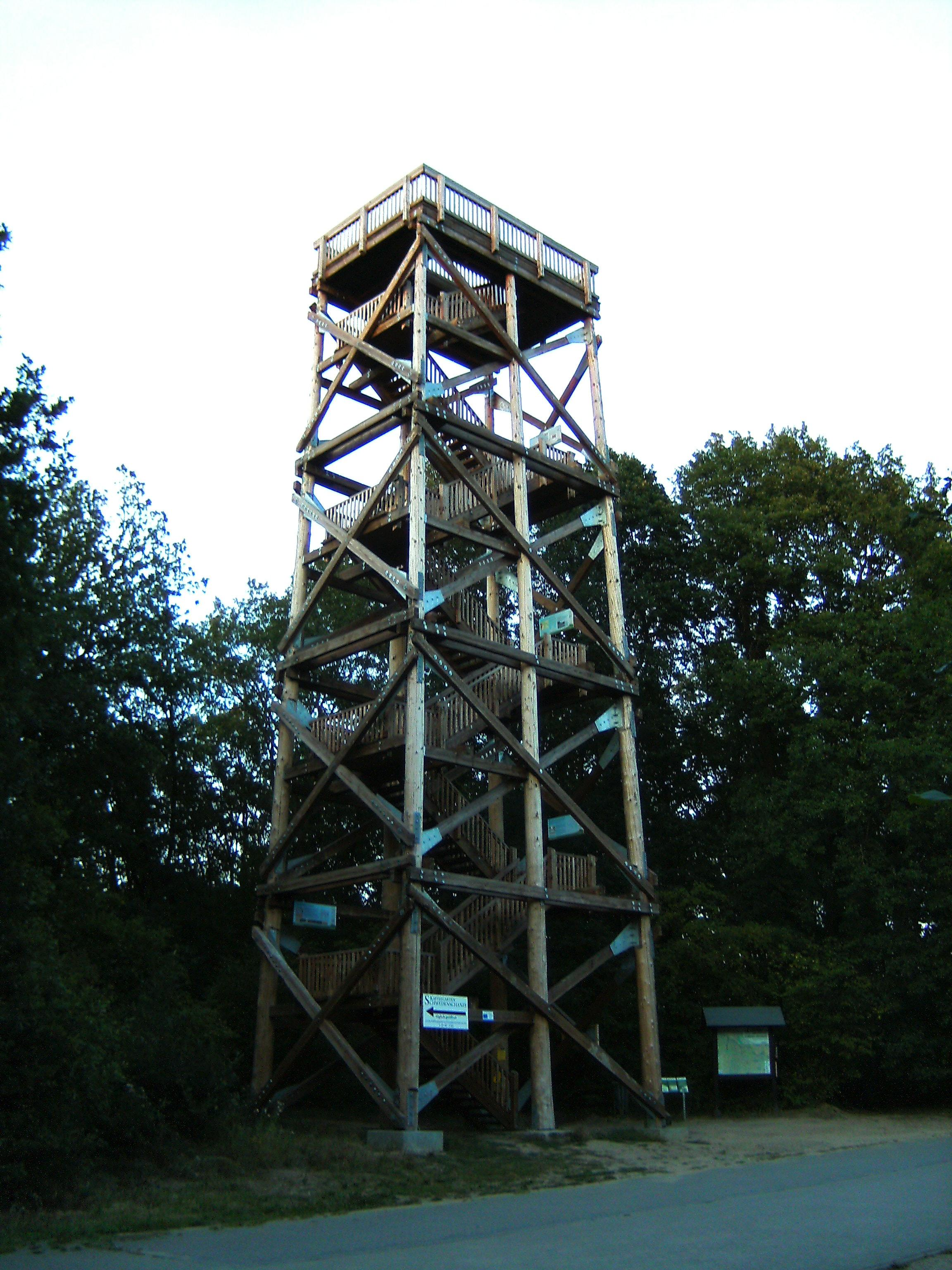 Höhbeck Observation Tower